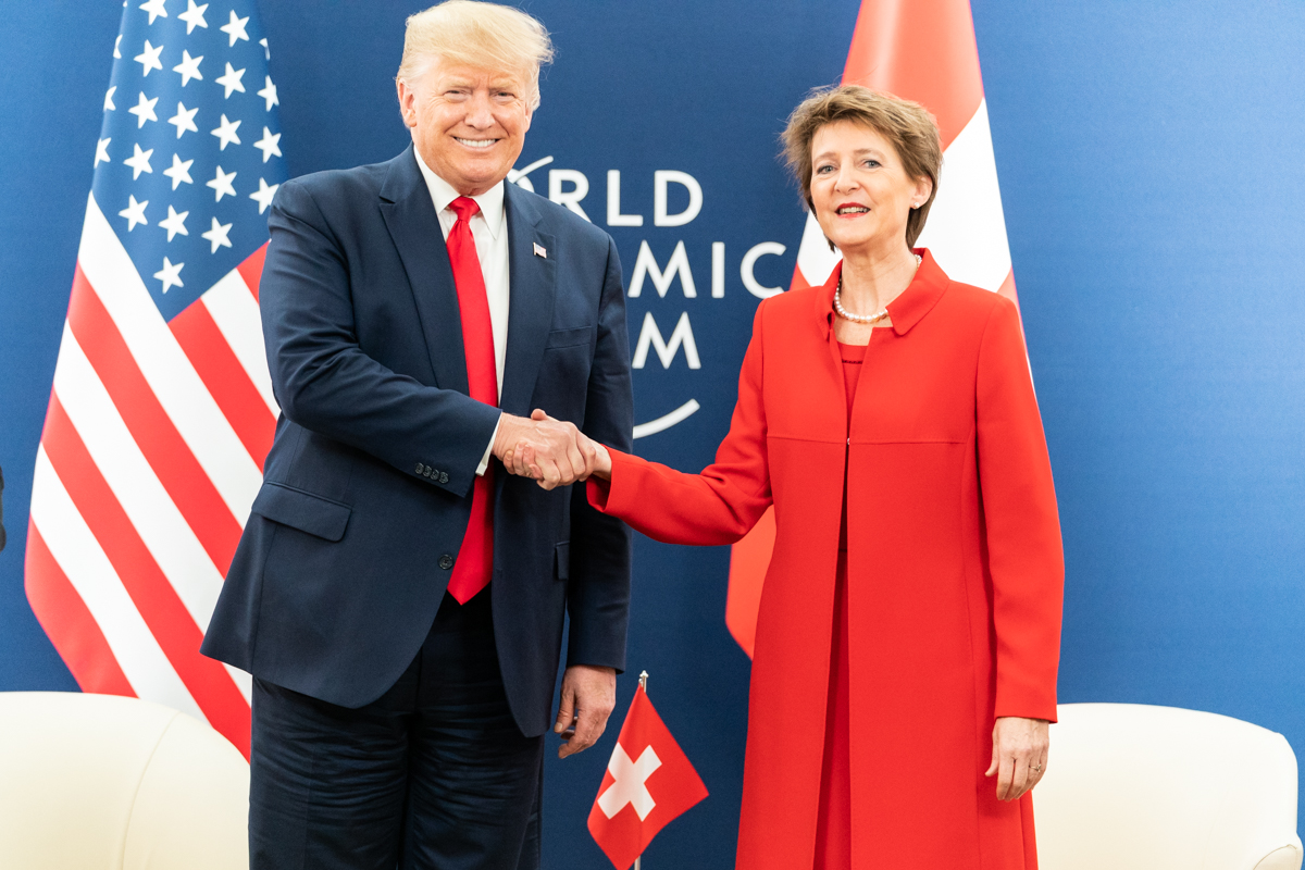 President Donald J. Trump meets with the President of the Swiss Confederation Simonetta Sommaruga during the 50th Annual World Economic Forum meeting Tuesday, Jan. 21, 2020, at the Davos Congress Centre in Davos, Switzerland. (Official White House Photo by Shealah Craighead)